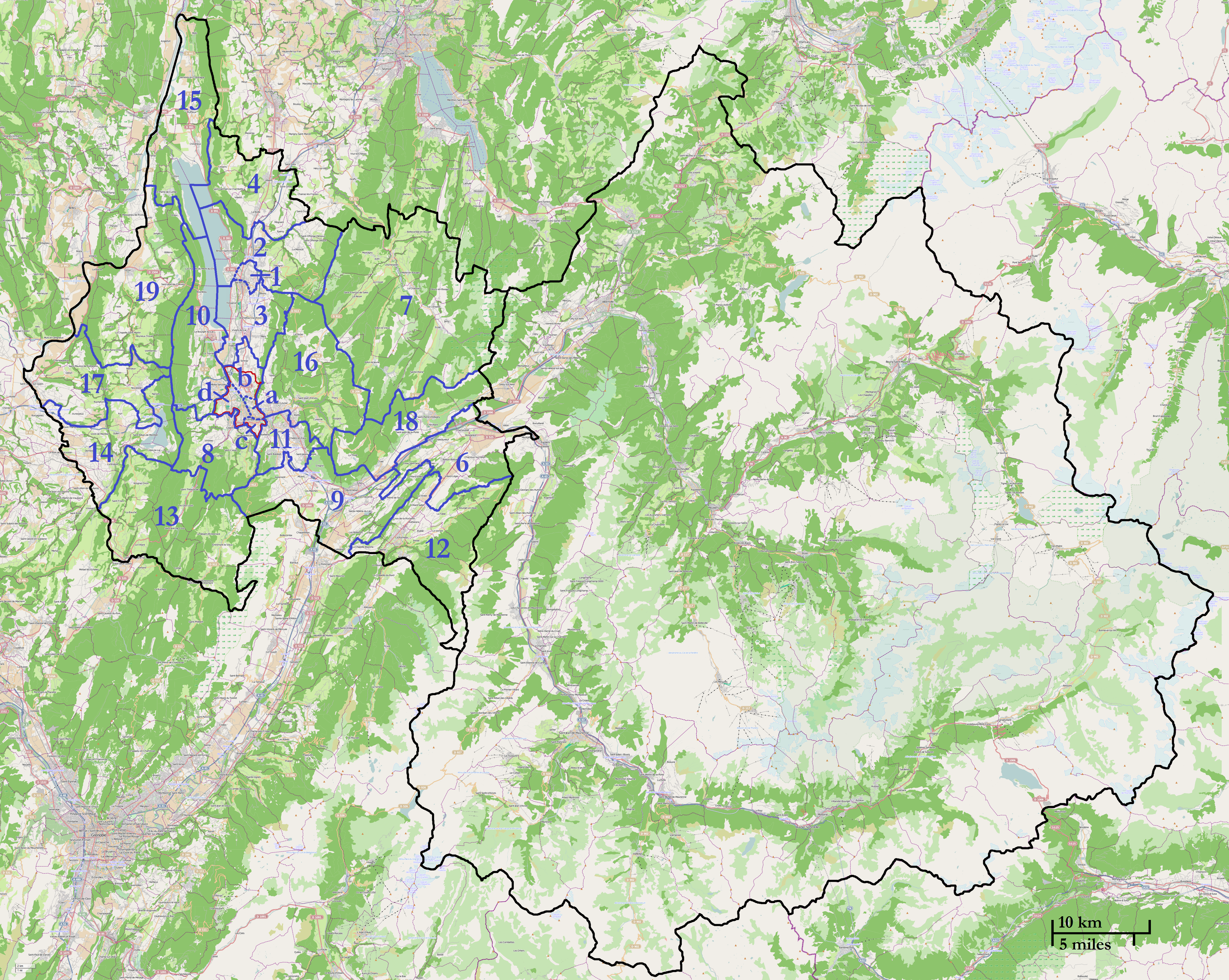 Map of the French department of Savoie. Are visible the 22 "cantons" (in blue) of the "arrondissement de Chambéry" (commune in red). Note: The division limits of Chambéry and Aix-les-Bains were drawn approximative.